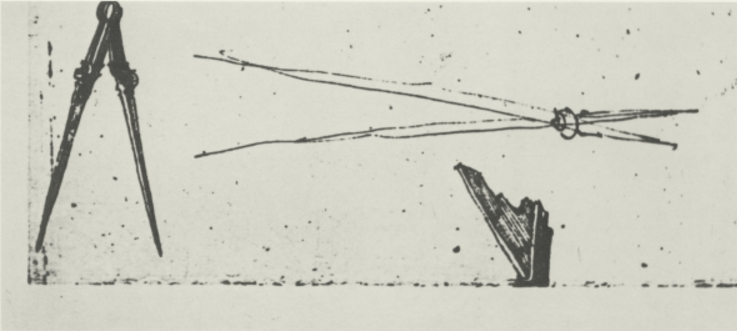 Preparatory sketch of the compass in Melencolia I by Albrecht Dürer. Pen and ink. Sachsische Landesbibliothek, Dresden.